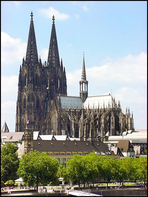 Cologne Cathedral (Rayonnant Gothic style) from Southeast (2007)